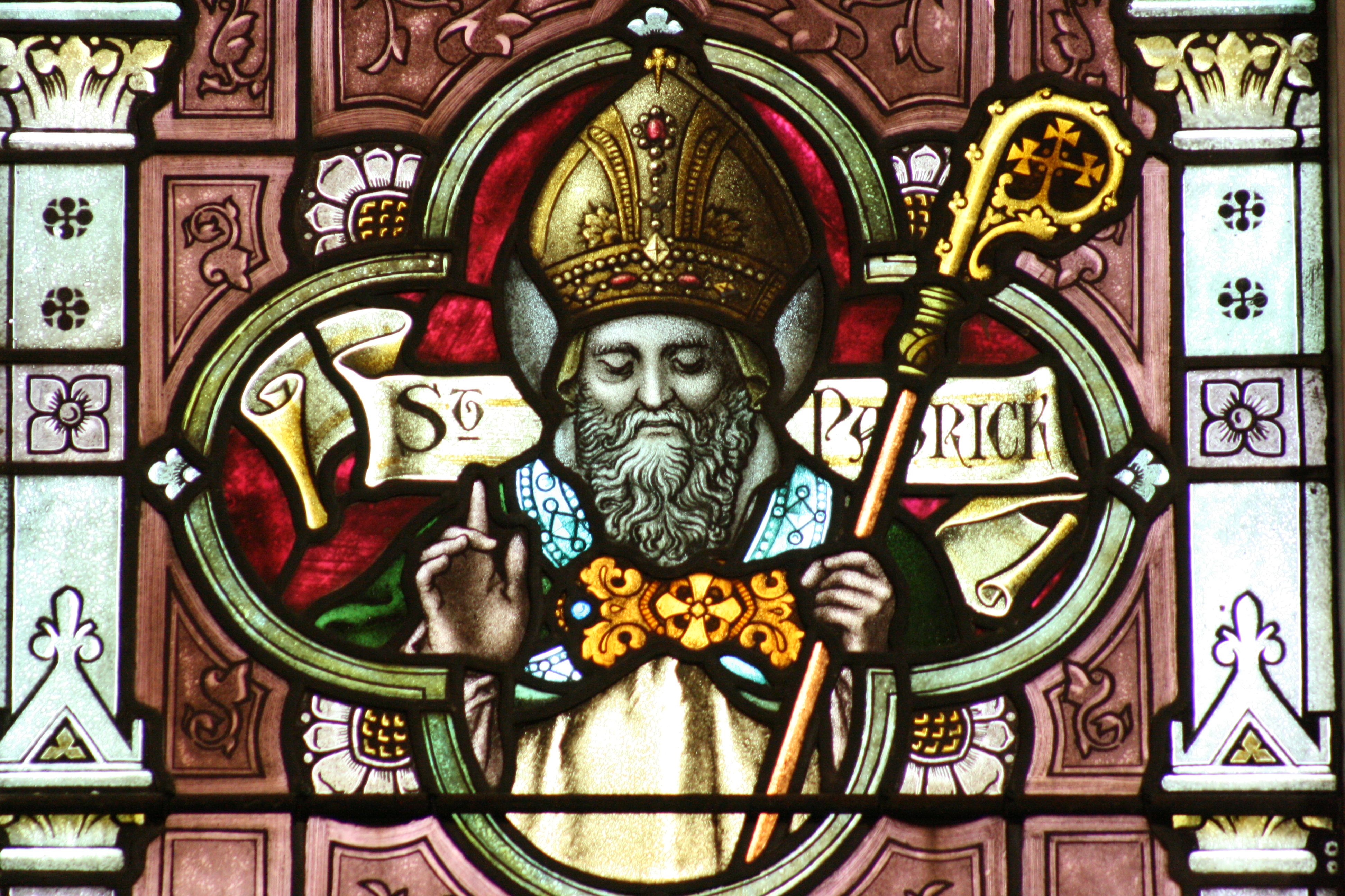 An example of a stain glass window at Star of the Sea